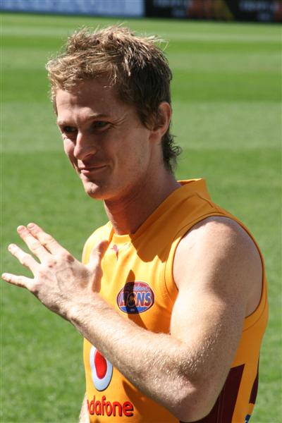 Troy Selwood at a Brisbane Lions public training session in 2008.